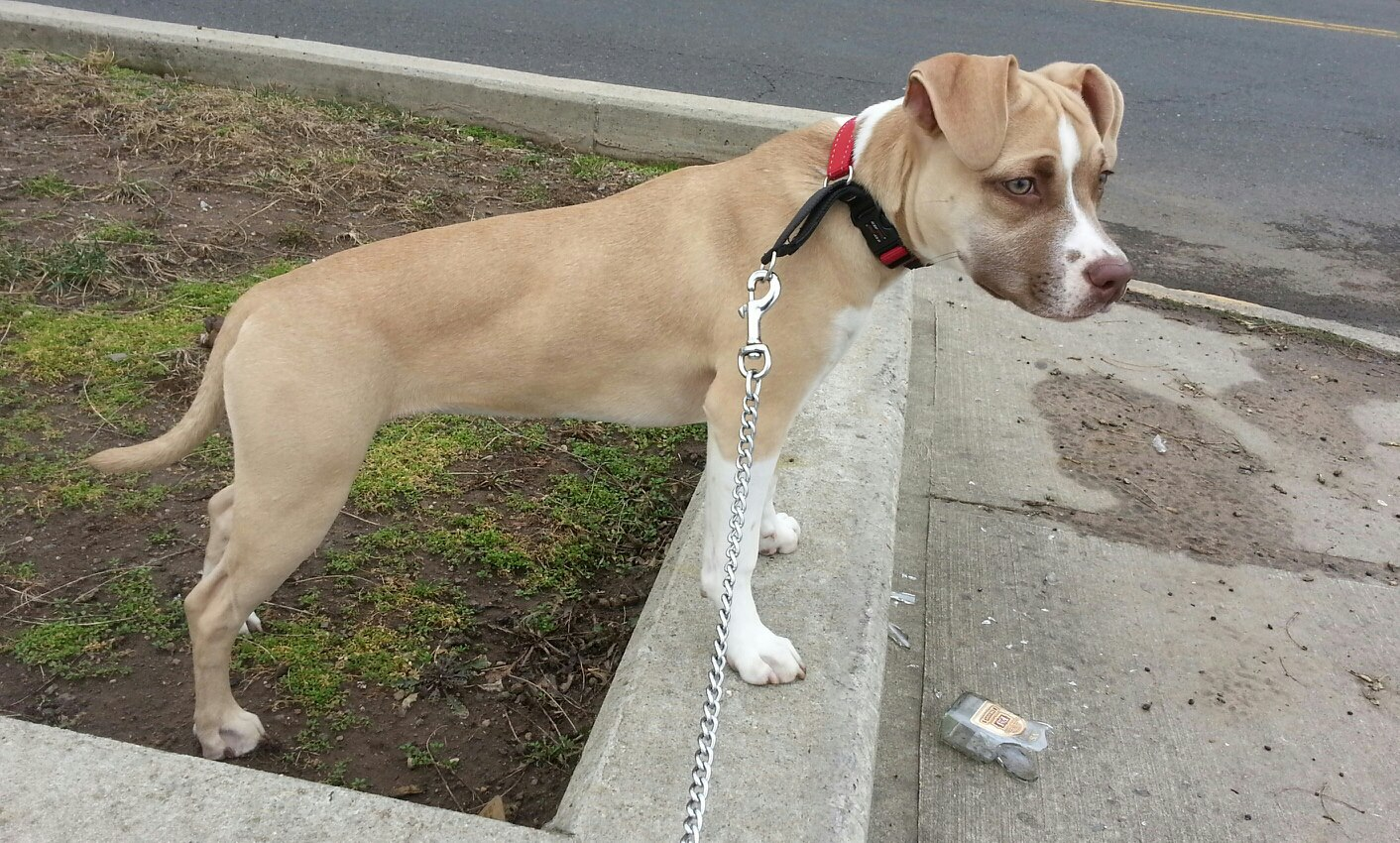 A healthy young APBT in her prime